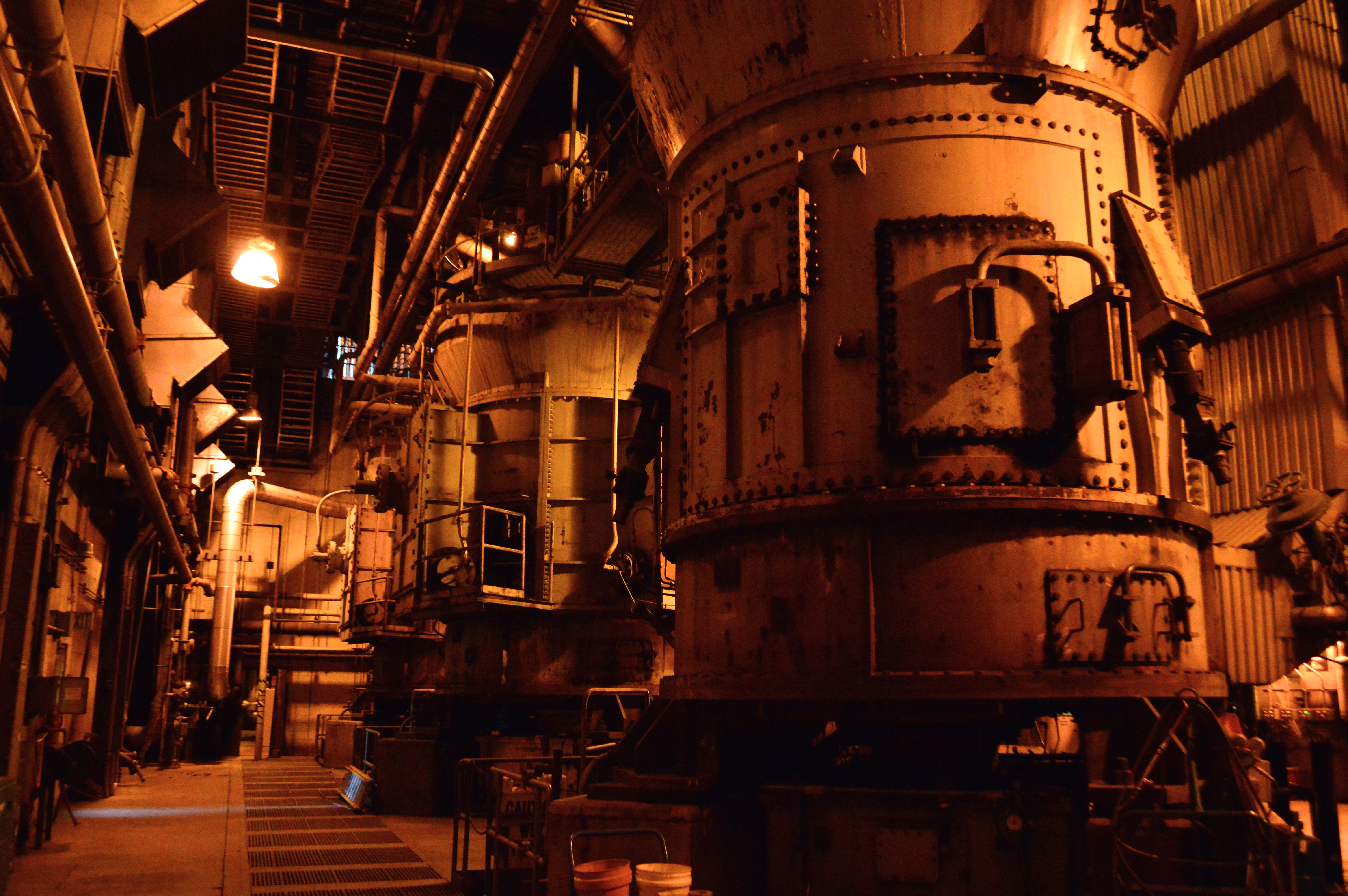 Large cylinders in which coal is ground in preparation for burning in the main chamber of the Boardman Coal Plant.